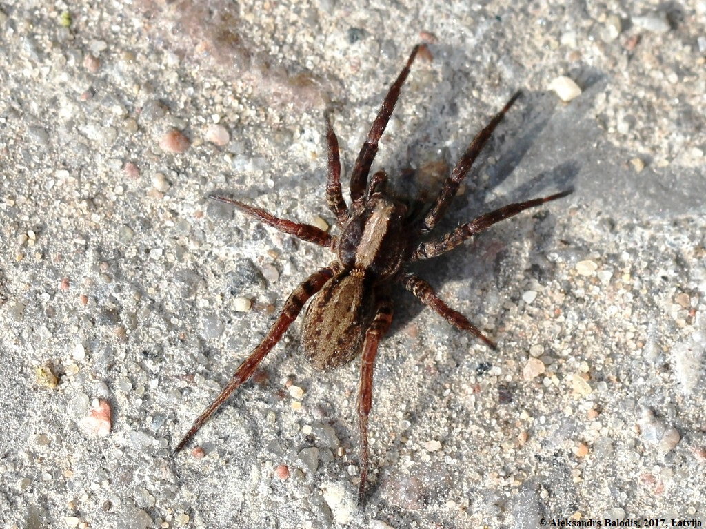 Alopecosa pulverulenta